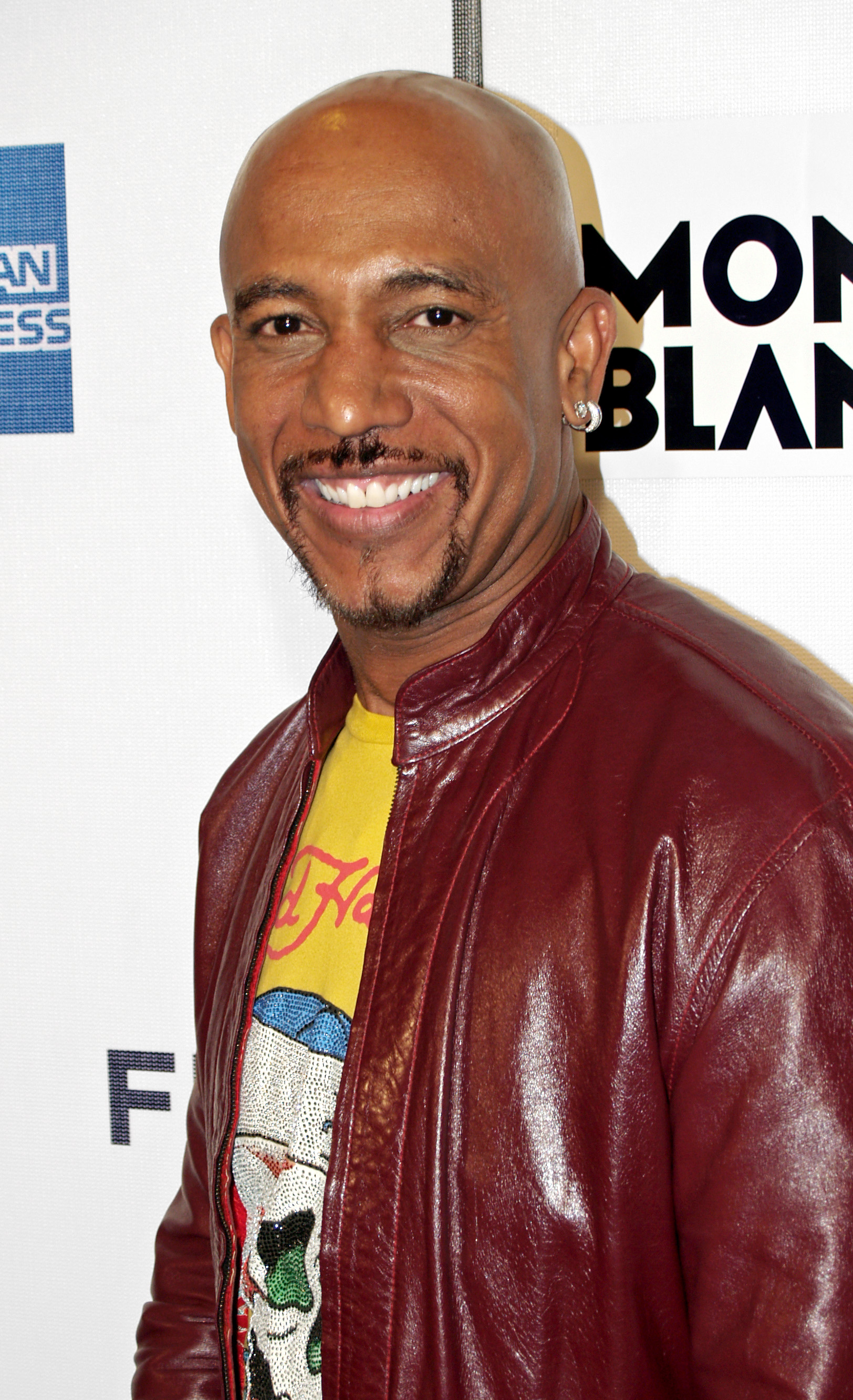 Montel Williams at the premiere of War, Inc. at the 2008 Tribeca Film Festival.